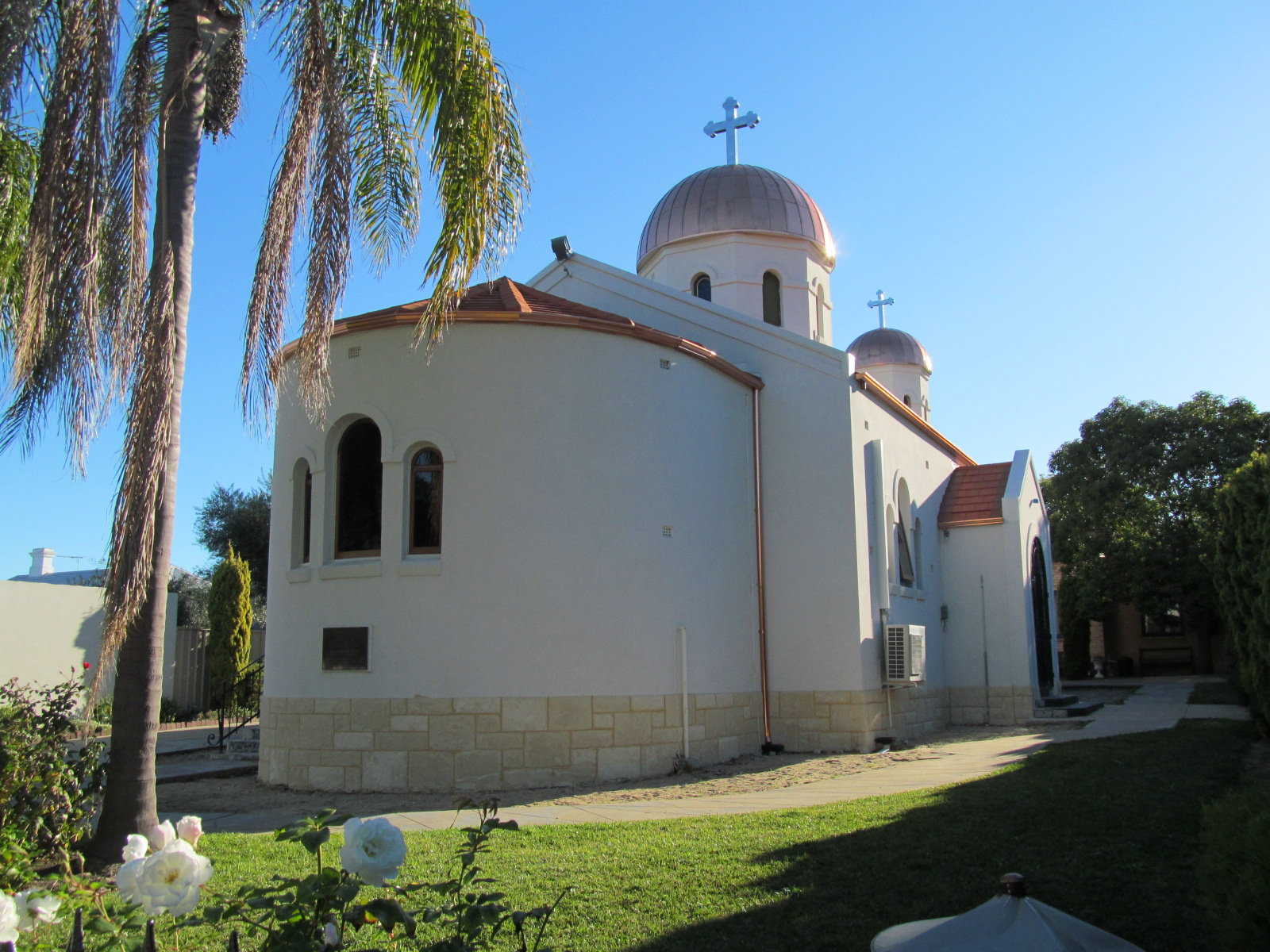 Church of St Sava (Serbian Orthodox) in Highgate, Western Australia